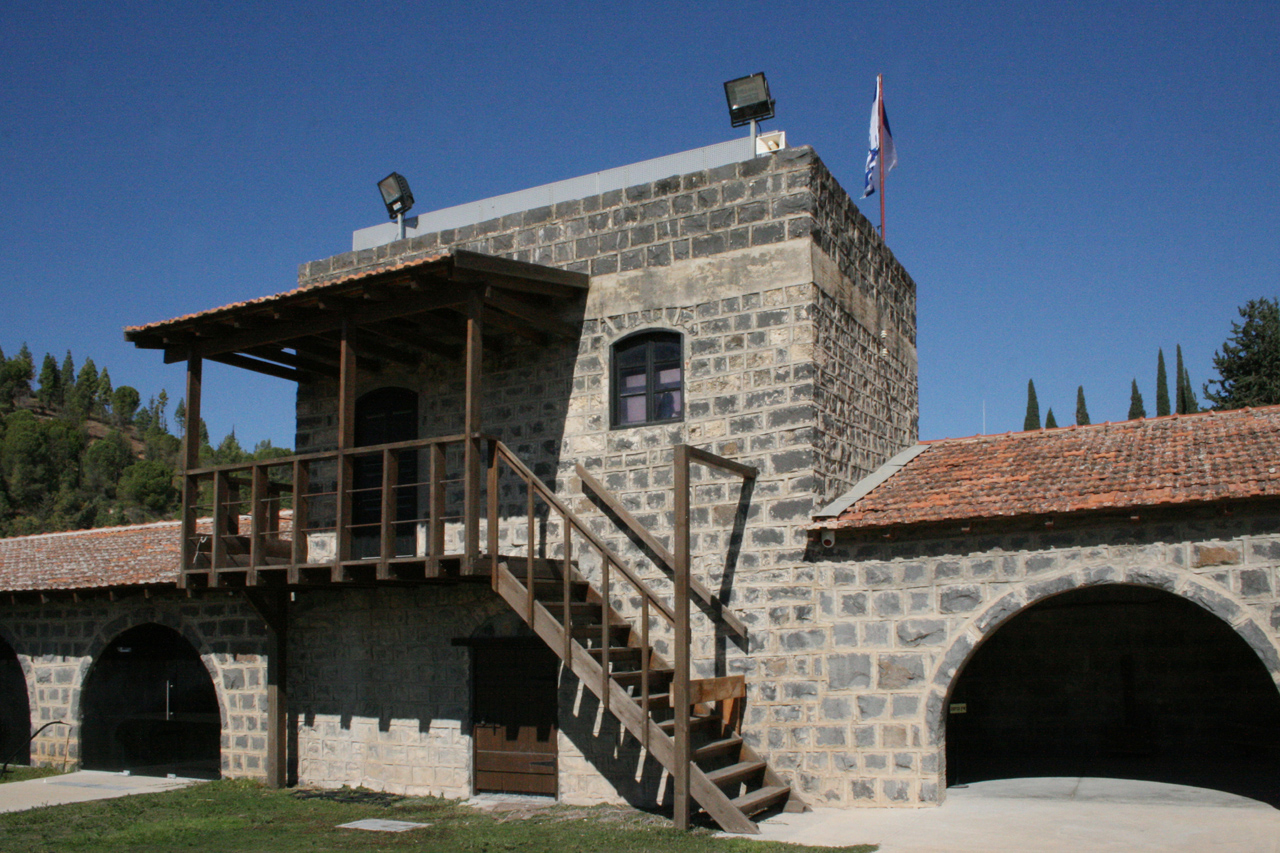 Tel Hai - Courtyard